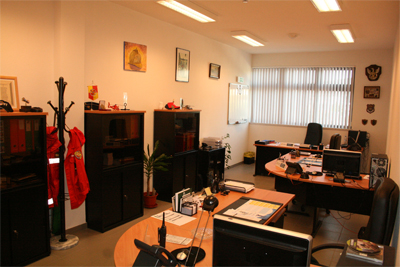 AHBVPA-GabineteComando